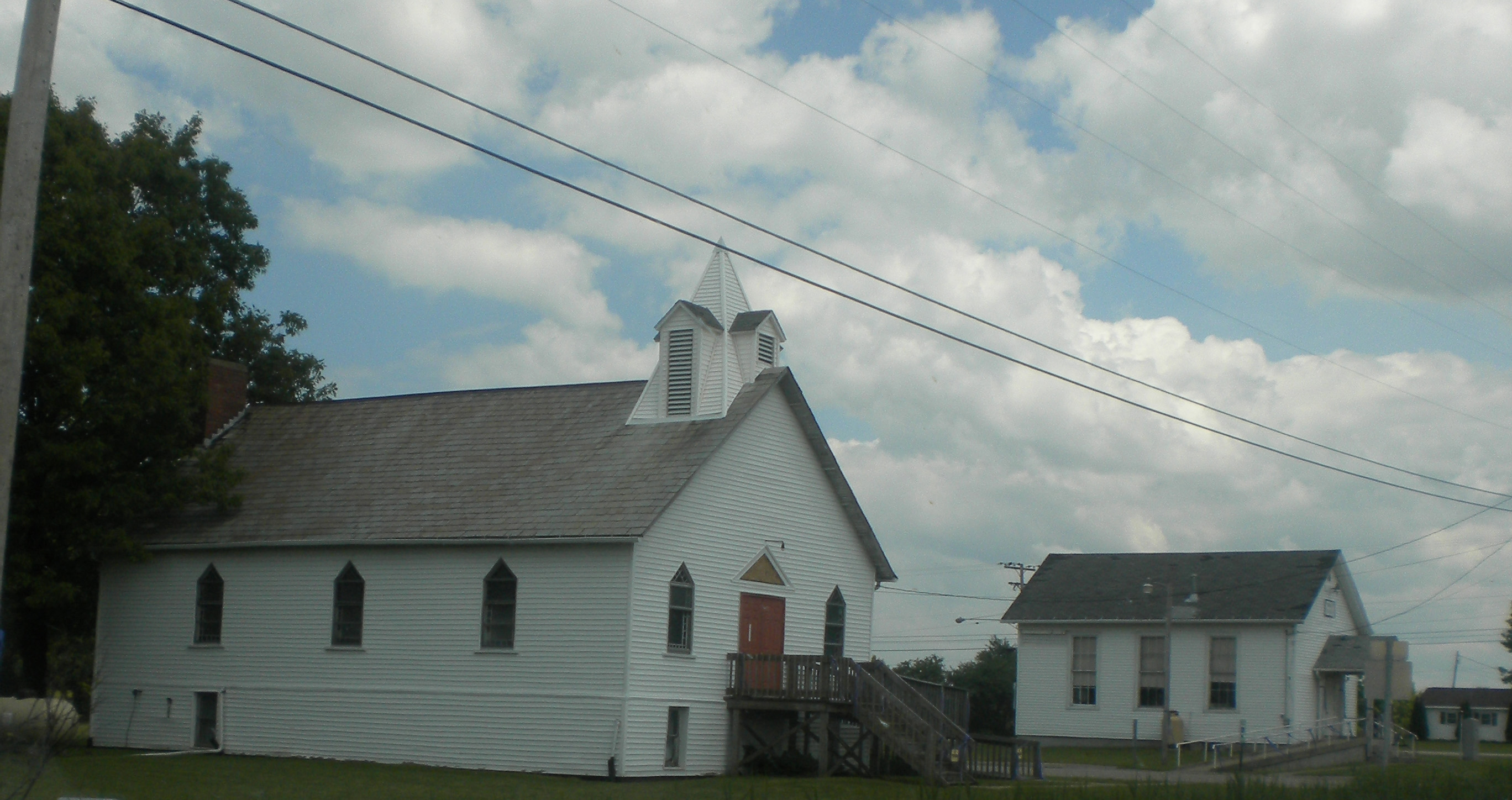 Part of the center of Denmark Township, Ashtabula county, Ohio. The church is in the foreground, with the town hall across the street. See also the grocery